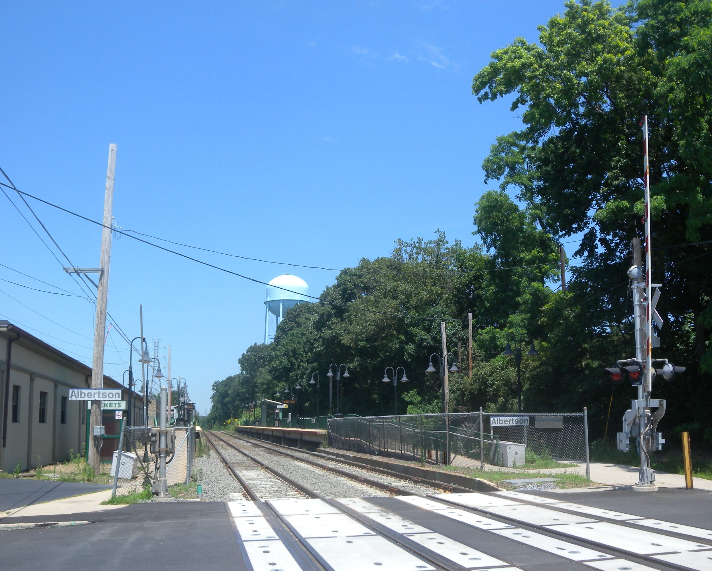 Looking north at Albertson station on a sunny midday.